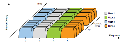 Single Carrier FDMA